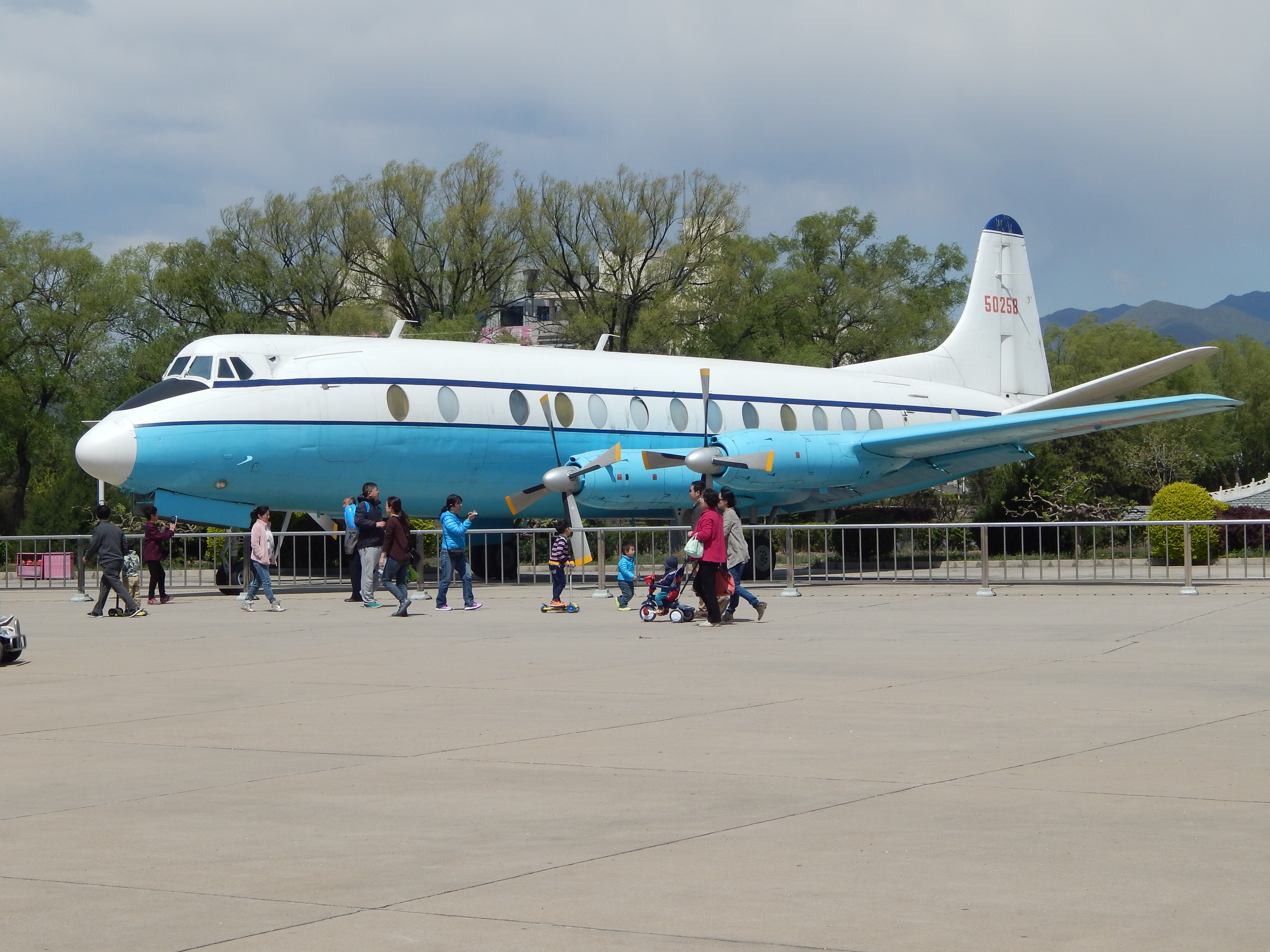 Was not expecting this at the entrance to this amazing museum.